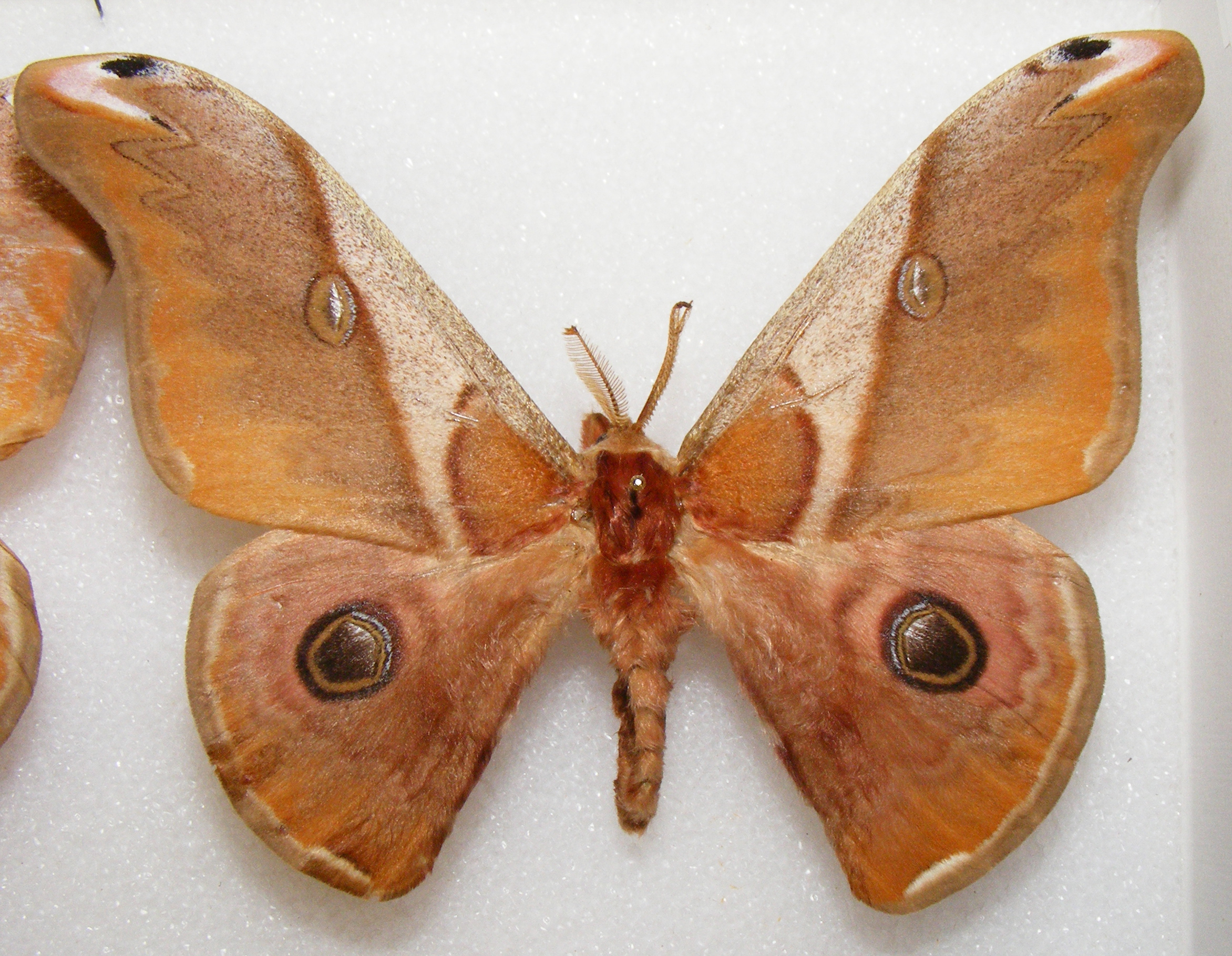 Caligula simla adult male from the Texas A&M University Insect Collection